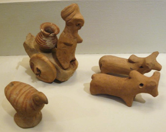 Harappa. Miniature Votive Images or Toy Models, ca. 2500. Hand-modeled terra-cotta figurines with polychromy. Brooklyn Museum, Anonymous Gift, 37.38, 37.93-.94, 37.97, 37.64.